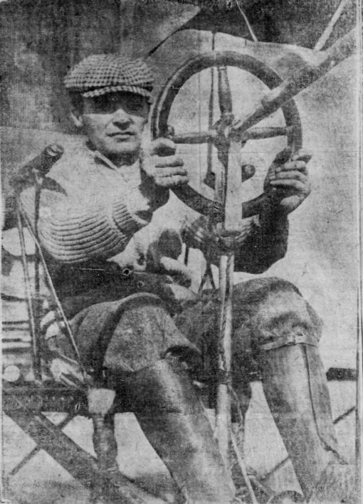 French aviator Didier Masson in his plane, The Pegasus.